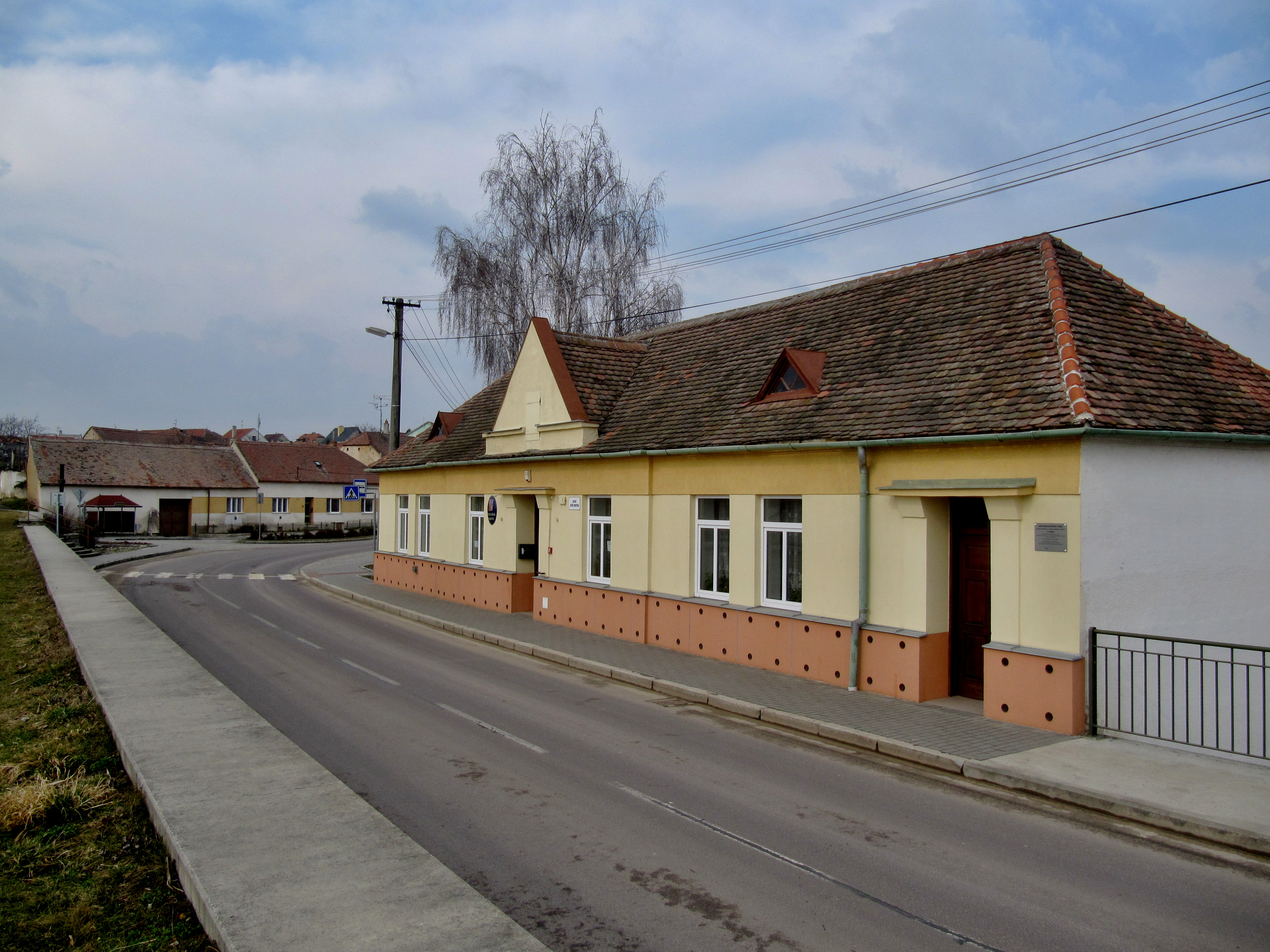 Plenkovice, Znojmo District, Czech Republic.